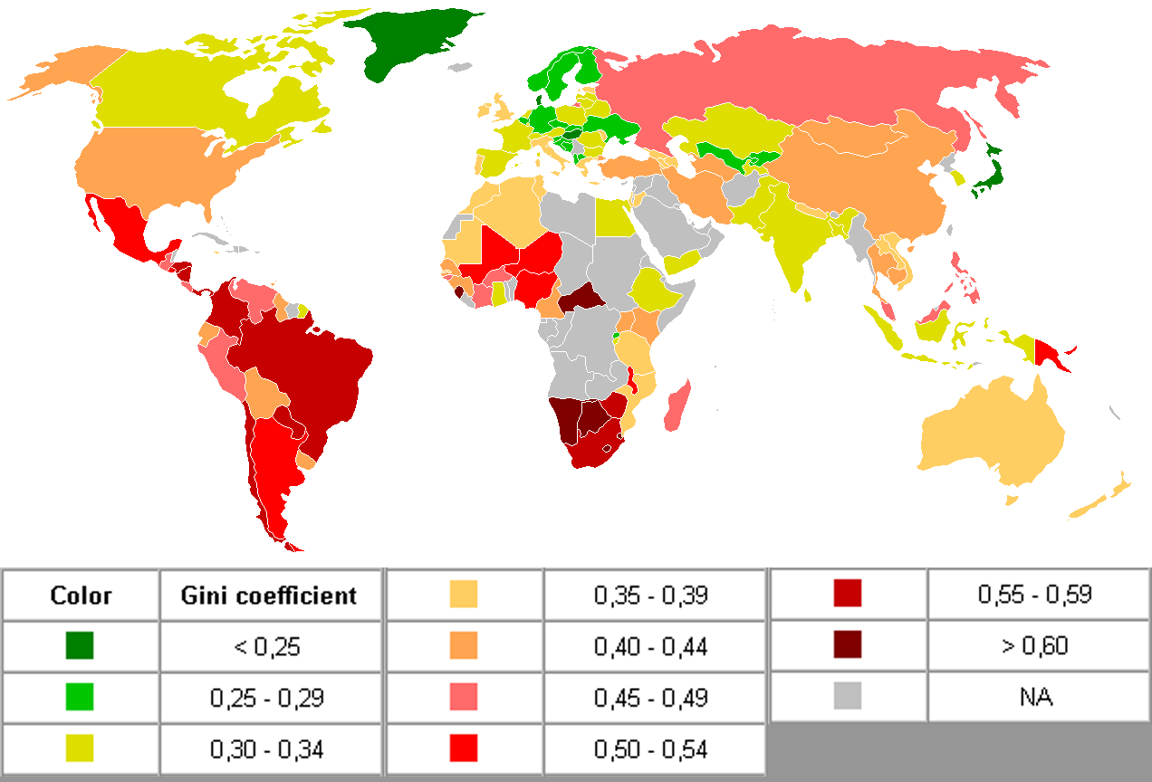 duvanGini coefficient, from Image:World Map Gini coefficient with legend 2.png